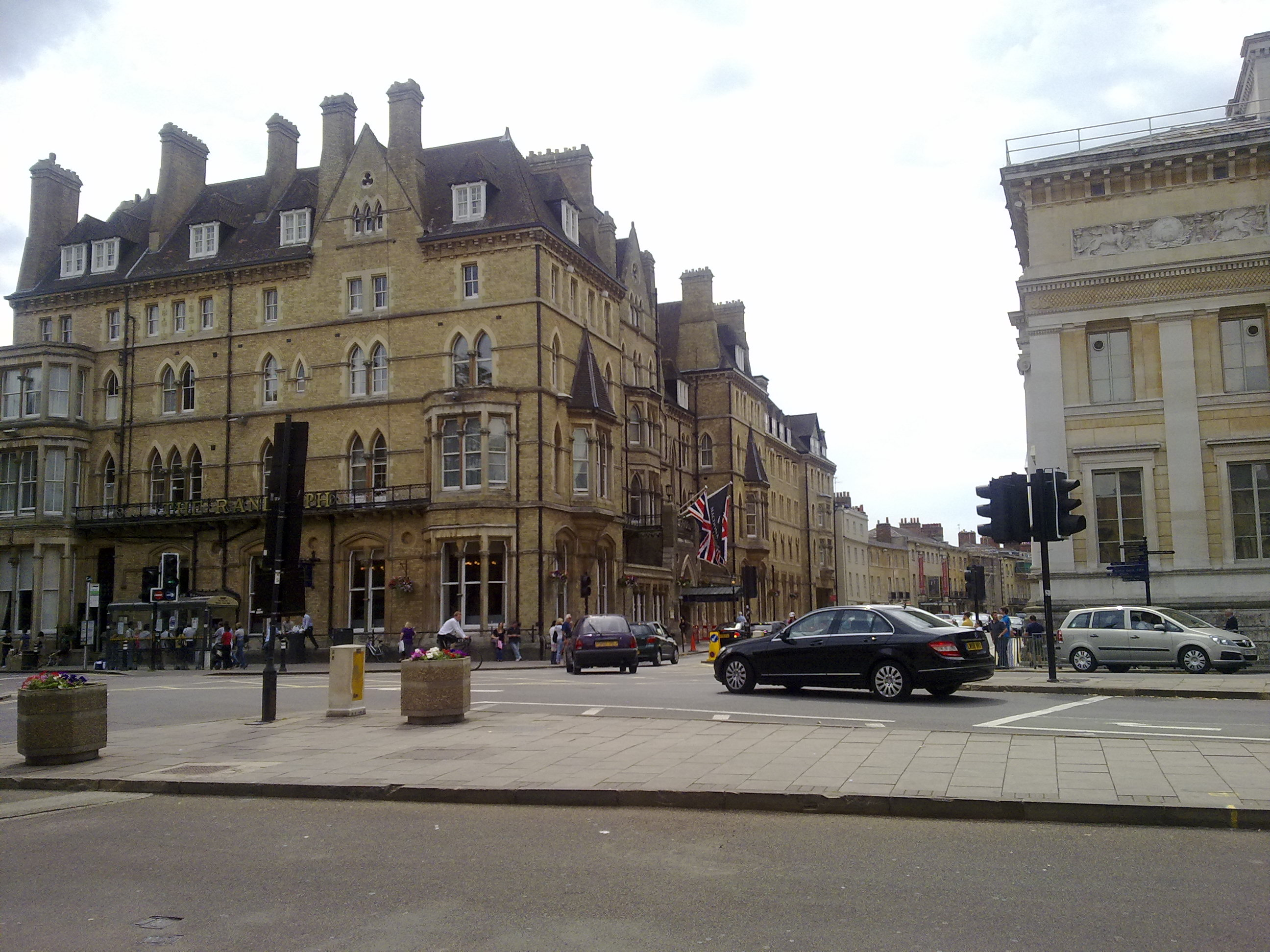 The Randolph Hotel, looking down Beaumont Street from St Giles.